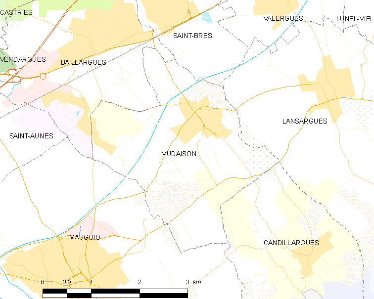 Map commune FR insee code 34176.png - Mudaison